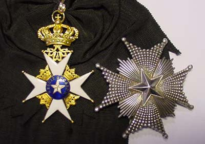 Knight Grand Cross badge and star of the order, in the original black ribbon.